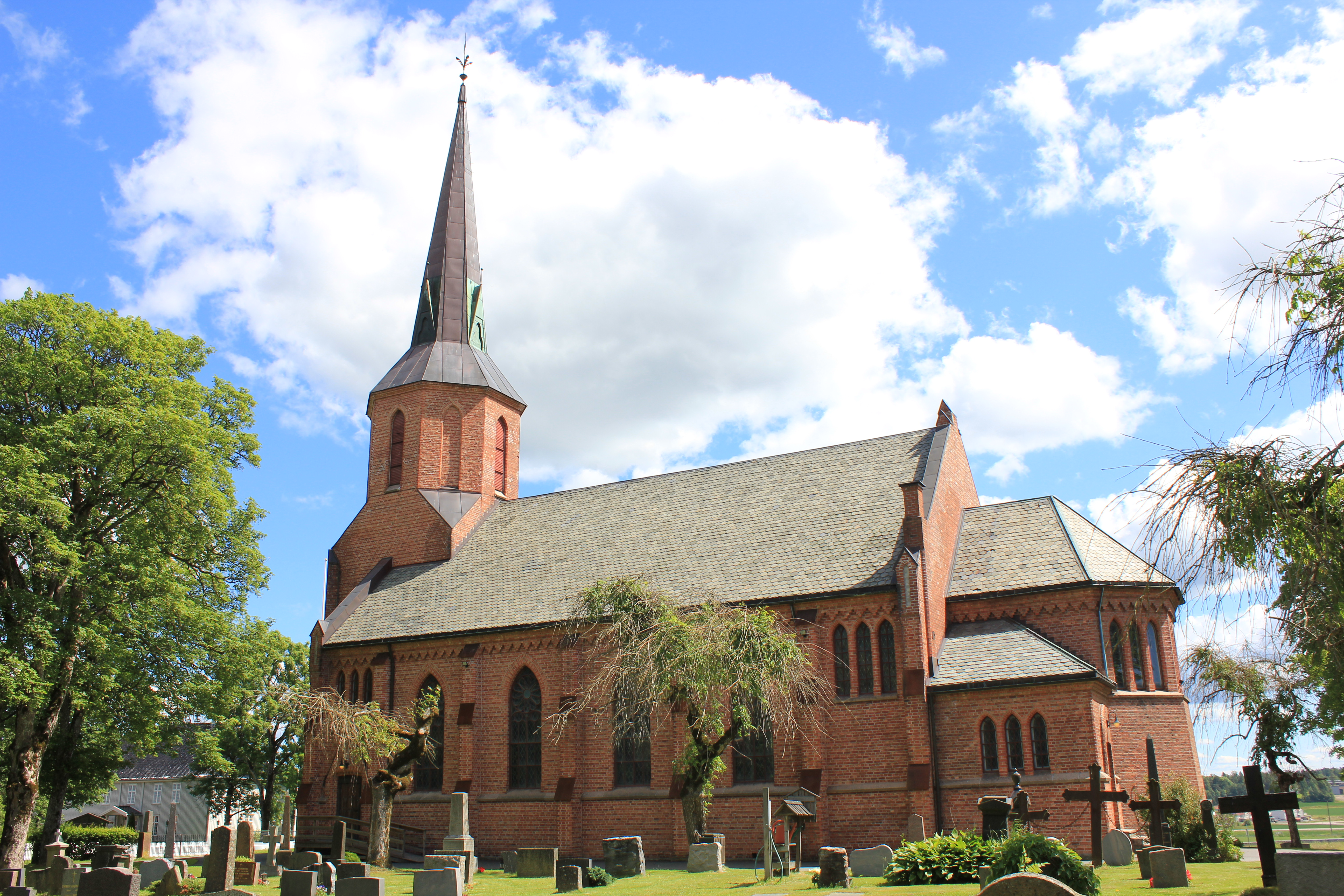 Vestby church in Akershus, Norway.